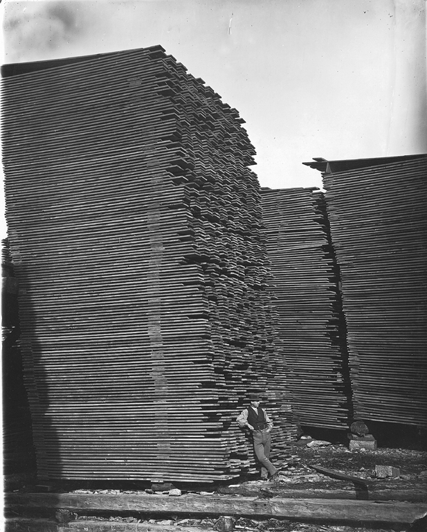 Lumber piles in Ottawa, Canada.